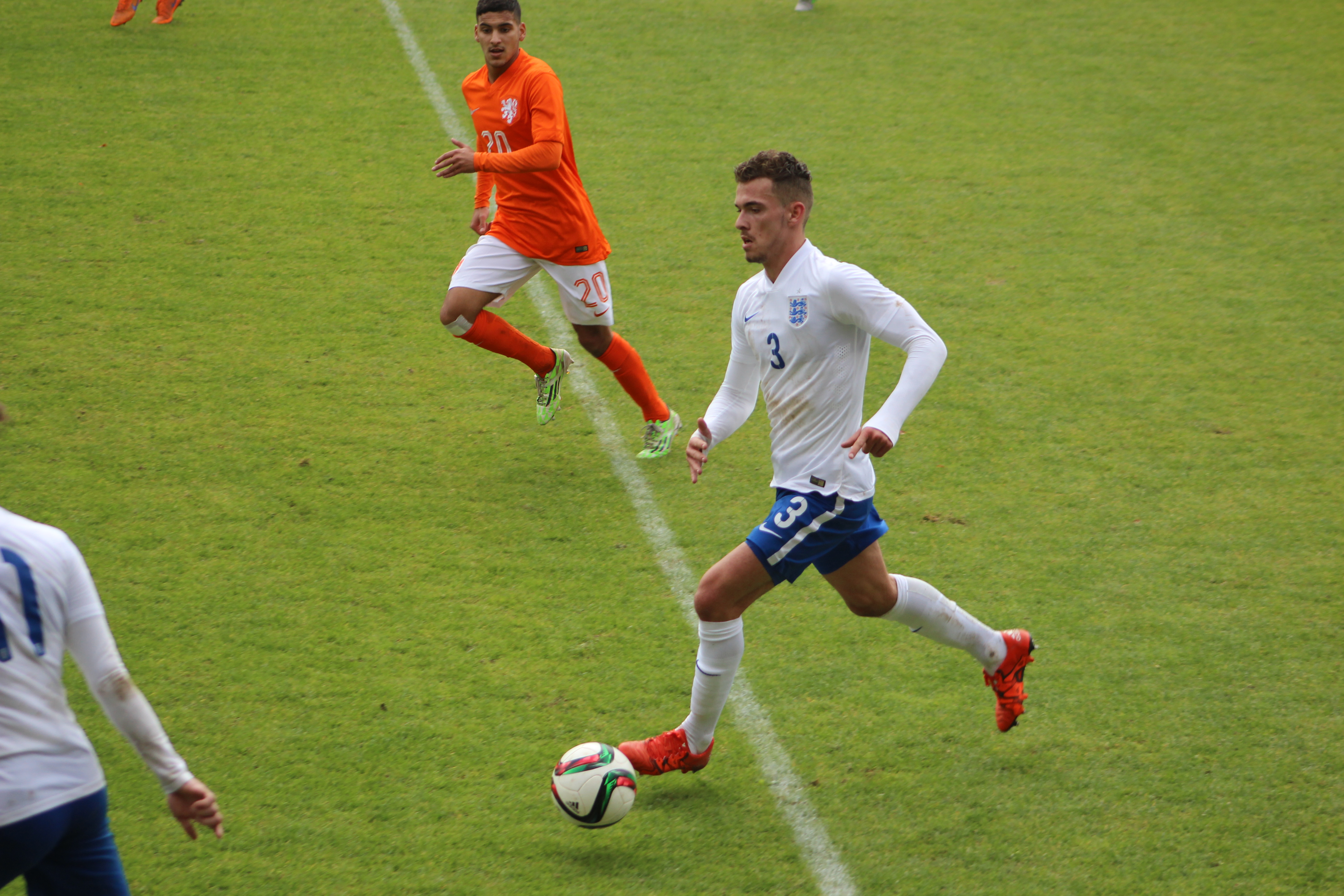 Harry Toffolo on attack